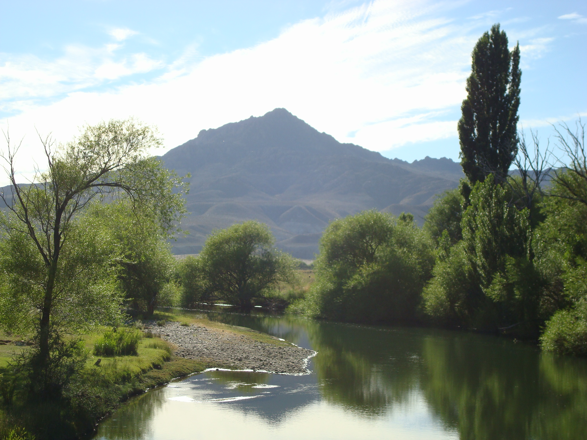 Fofo Cahuel